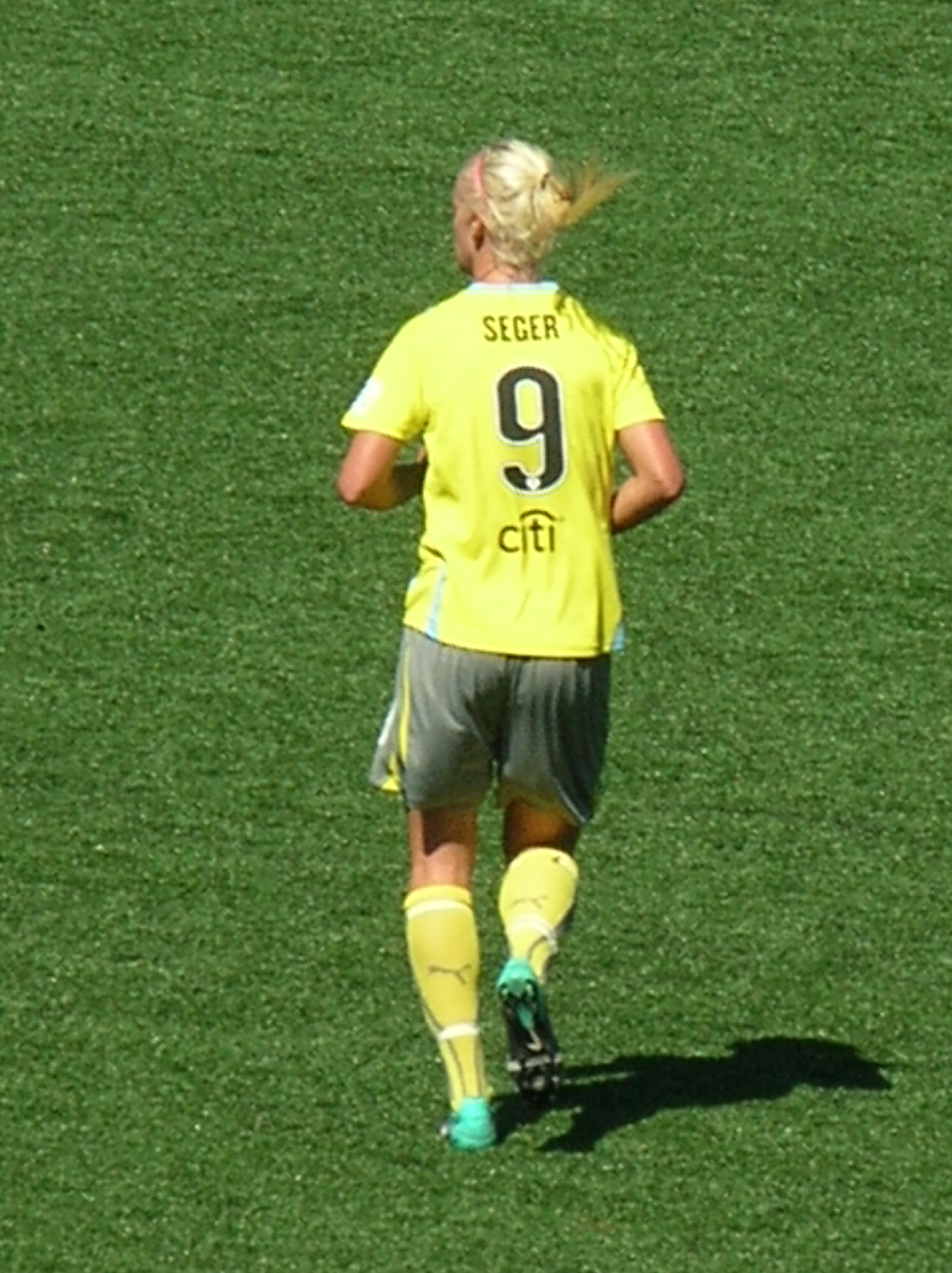 Philadelphia Independence midfielder Caroline Seger at the 2010 WPS Championship at Pioneer Stadium in Hayward against the FC Gold Pride. The Gold Pride won 4-0.